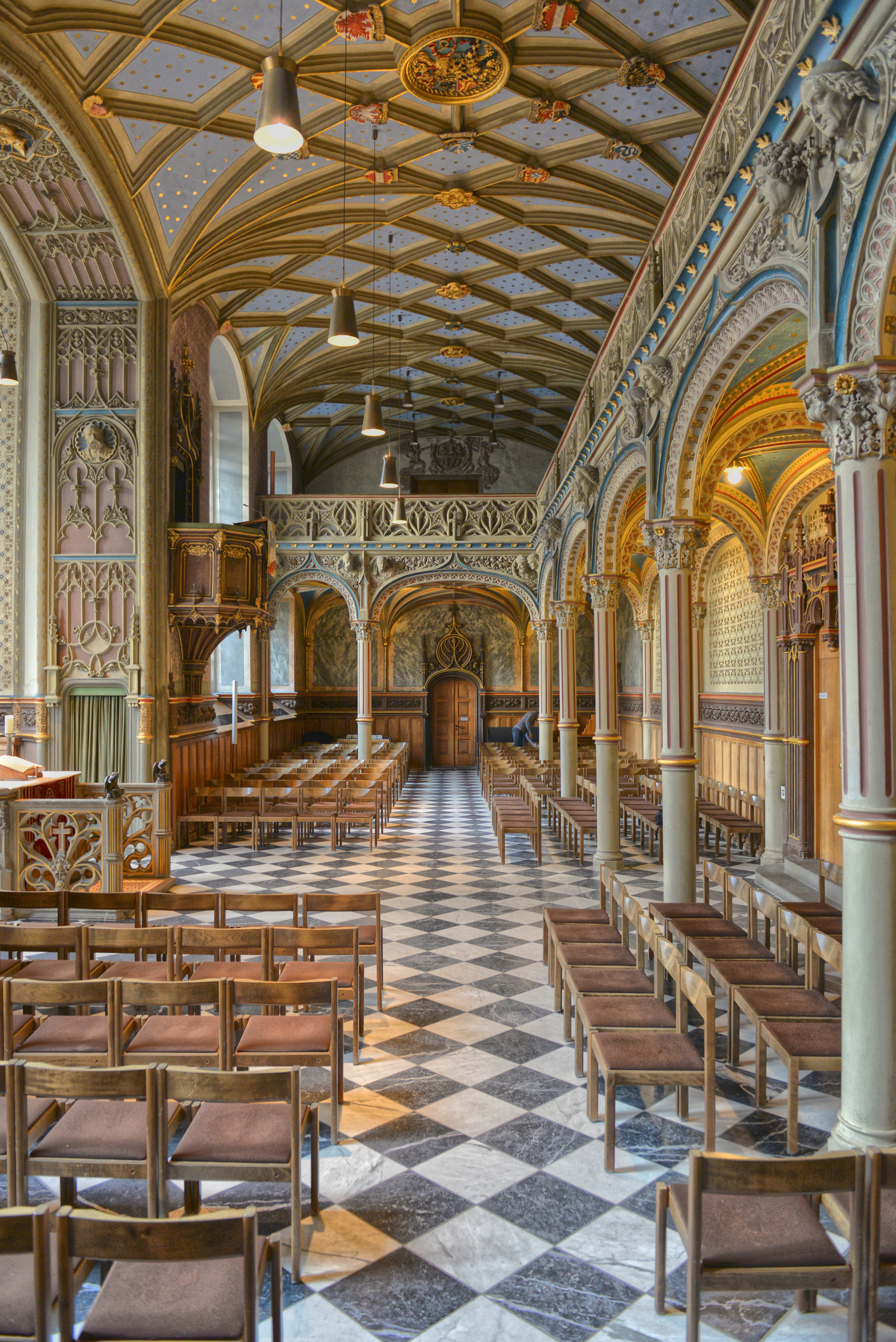 The Castle Church in the Old Castle